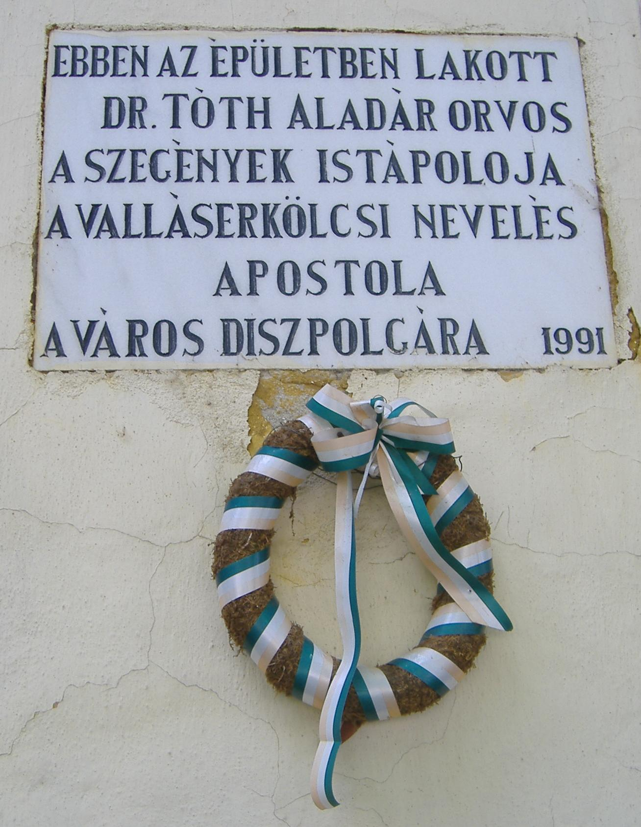 Memorial tablet of Aladár Tóth, head physician in Makó, Hungary.